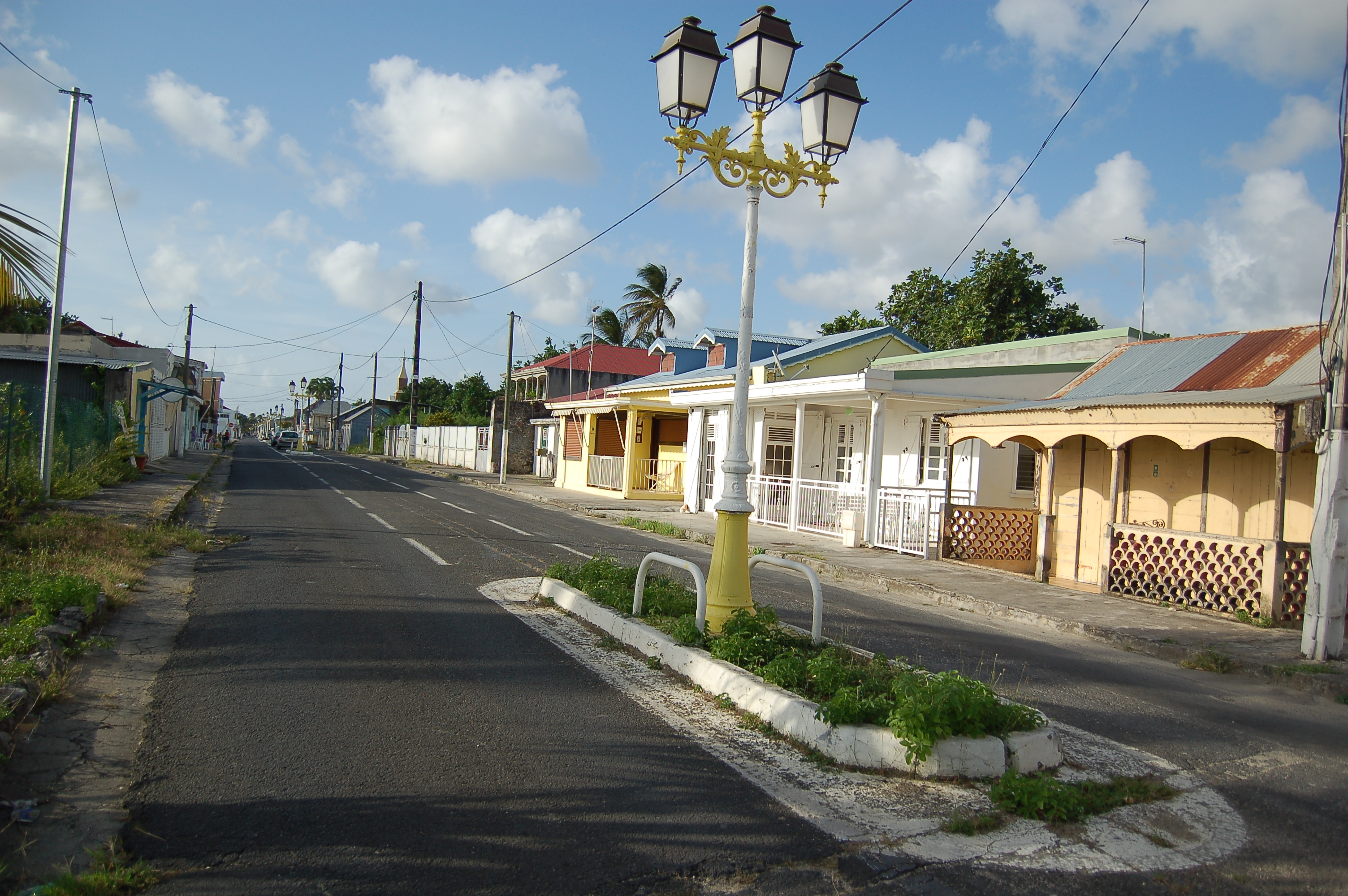 Streets of Port-Louis, Guadeloupe